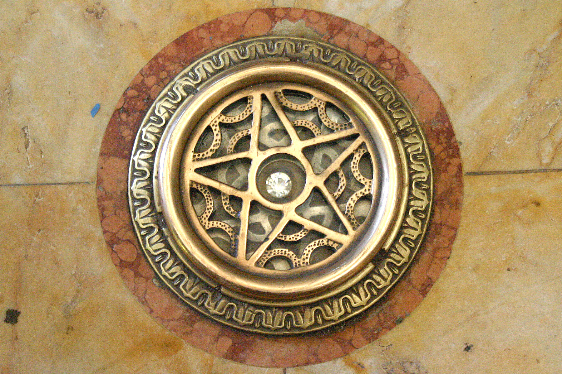 The diamond centerpoint of Capitolio, Havana, Cuba, December 2006.